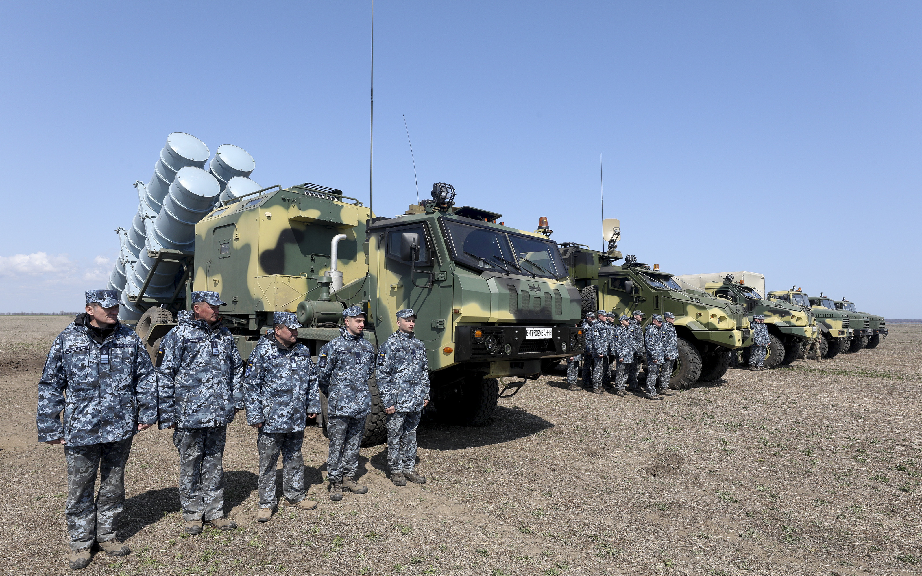 Neptune (cruise missile)